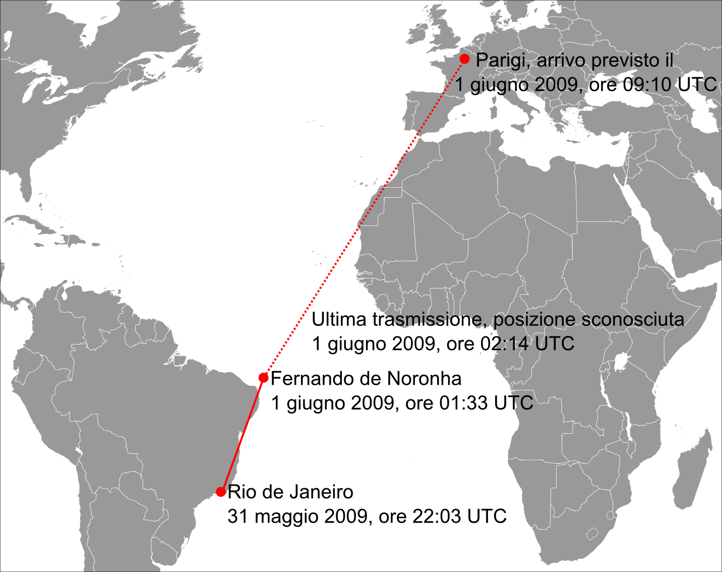 Italian translation of File:Air_France_Flight_447_path.svg - Route of Air France Flight 447 on 31 May-June 1 2009